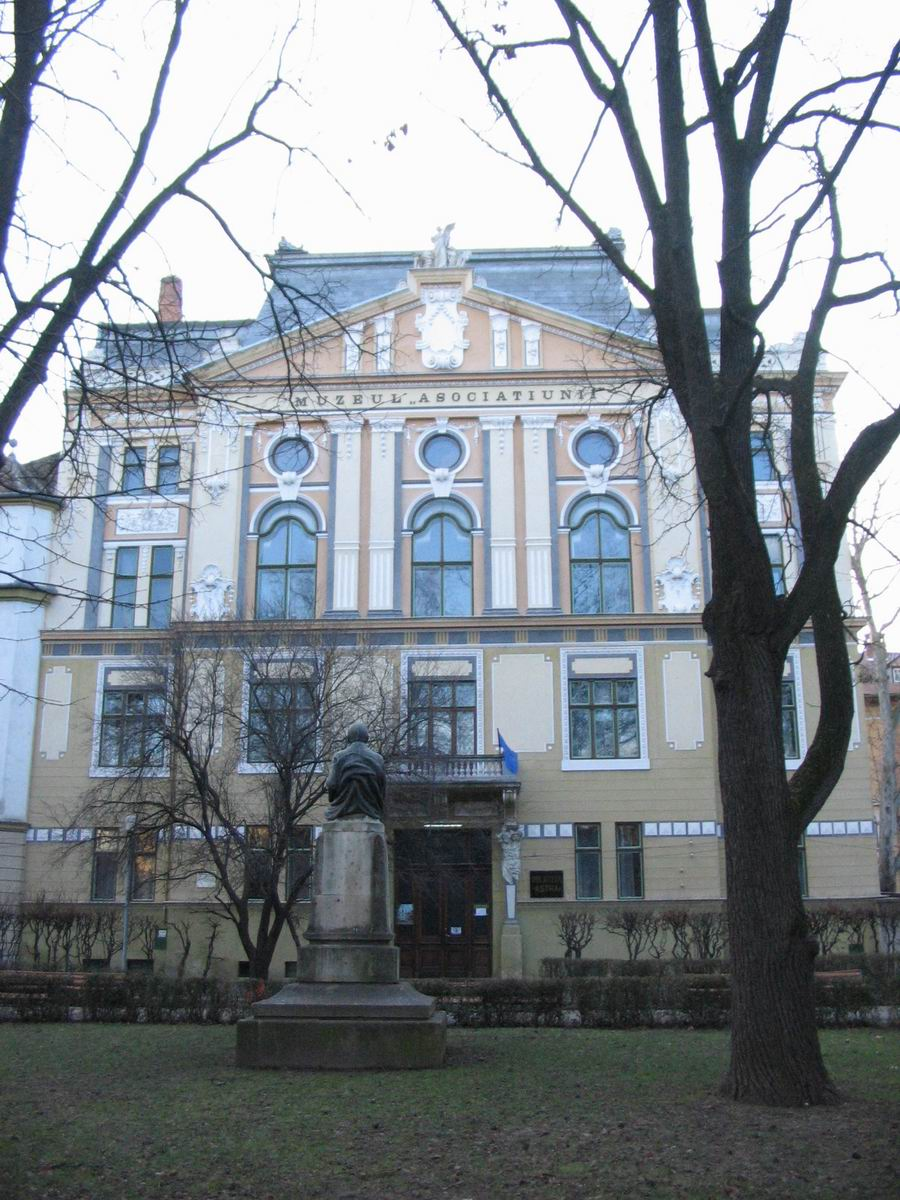 Made by me, December 2005.